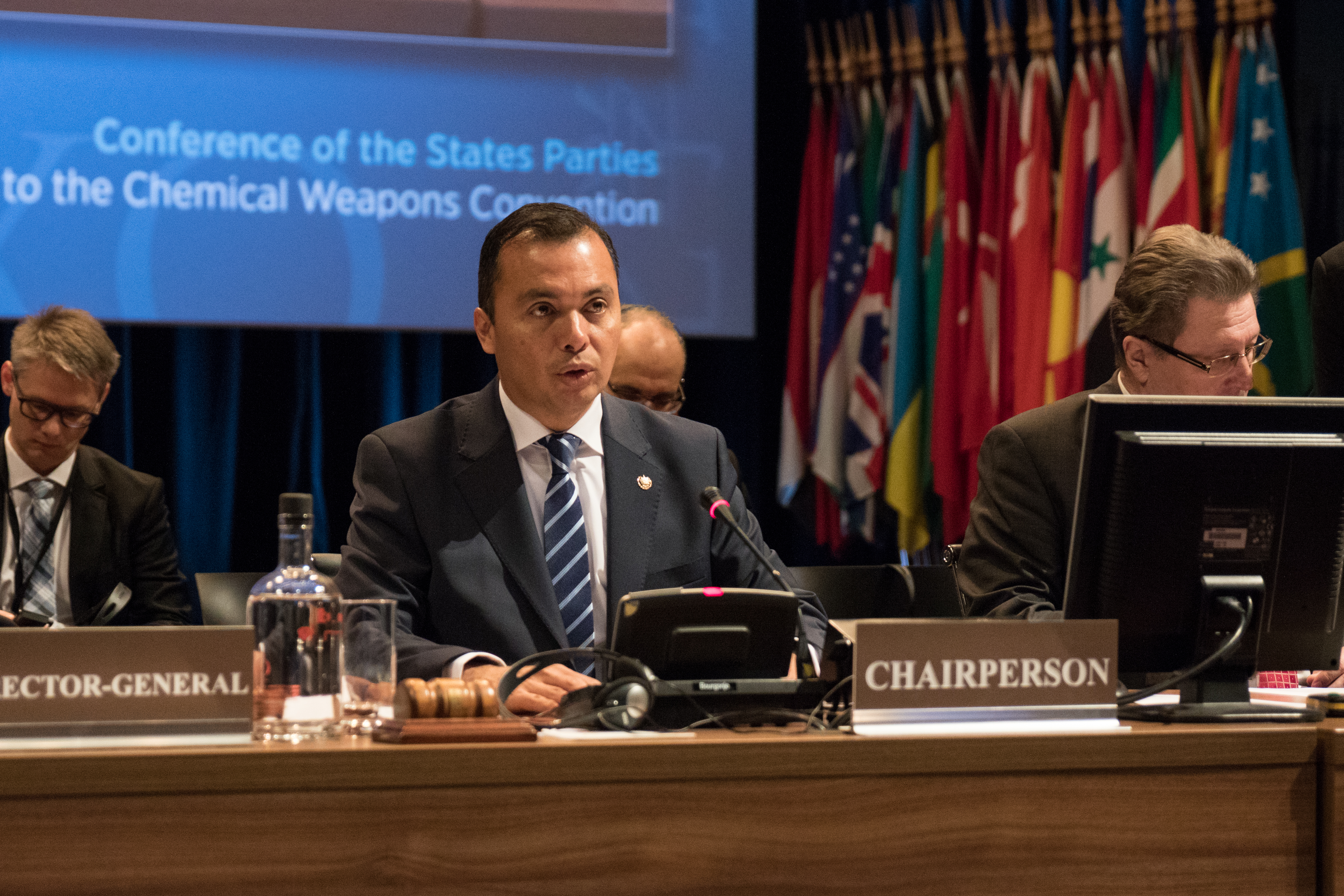 H.E. Agustin Vásquez Gómez, permanent representative of El Salvador, elected chairperson of OPCW's Fourth Review Conference. The conference was held at the World Forum, The Hague, 21–30 November 2018.